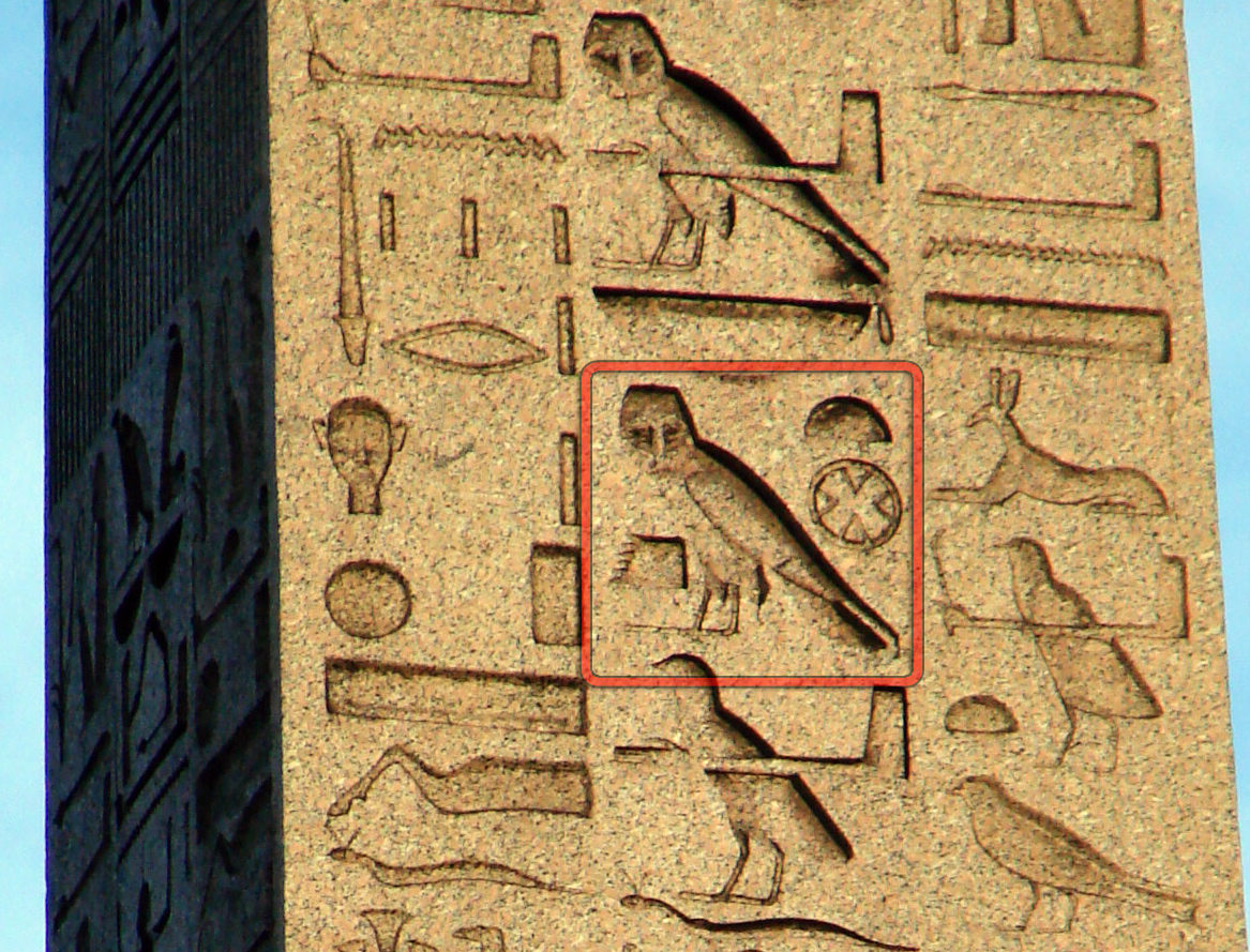 Close-up of the hieroglyph km.t, Kemet, Egypt on the Luxor Obelisk.